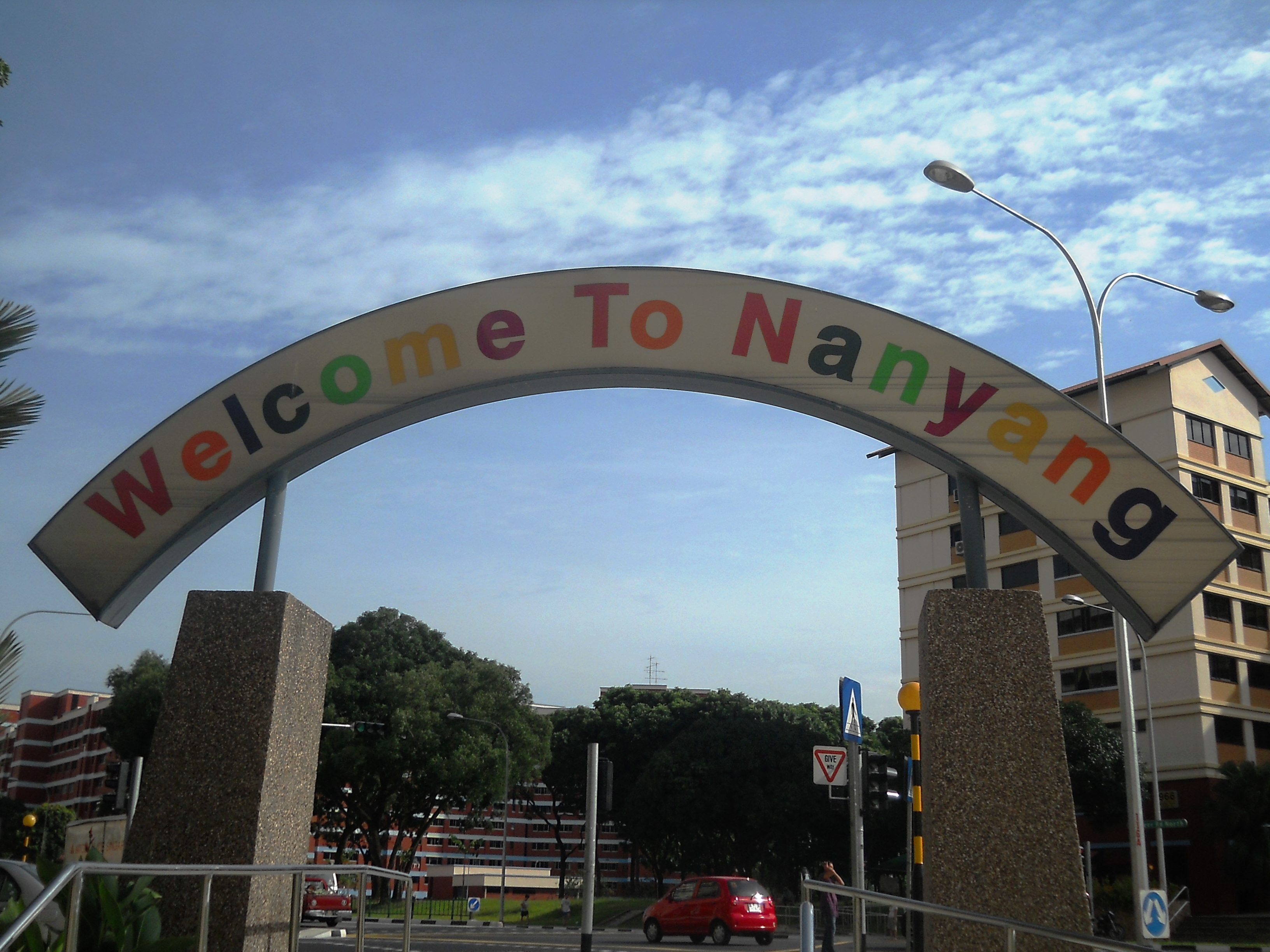 A "Welcome to Nanyang" arch at the intersection of Jurong West Avenue 5 and Pioneer Road North in Nanyang, Yunnan, Singapore.